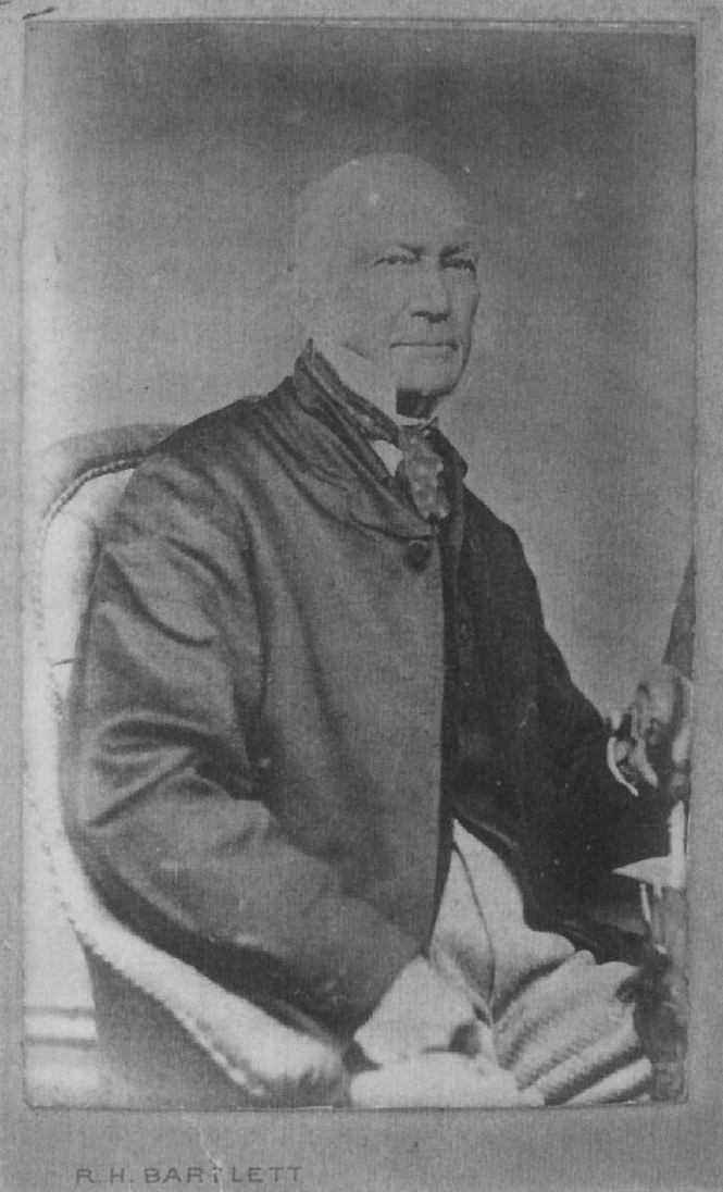 The Photograph shown below, is the only known image or likeness of William Powditch (1795–1872), to have survived, and it is believed to have been taken during the 1865–1870 period.